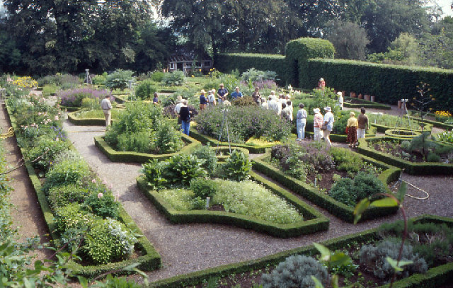 Kinoith, Shanagarry. The modern, formal herb garden at Ballymaloe Cookery School, set between beech hedges that date from the early nineteenth century.